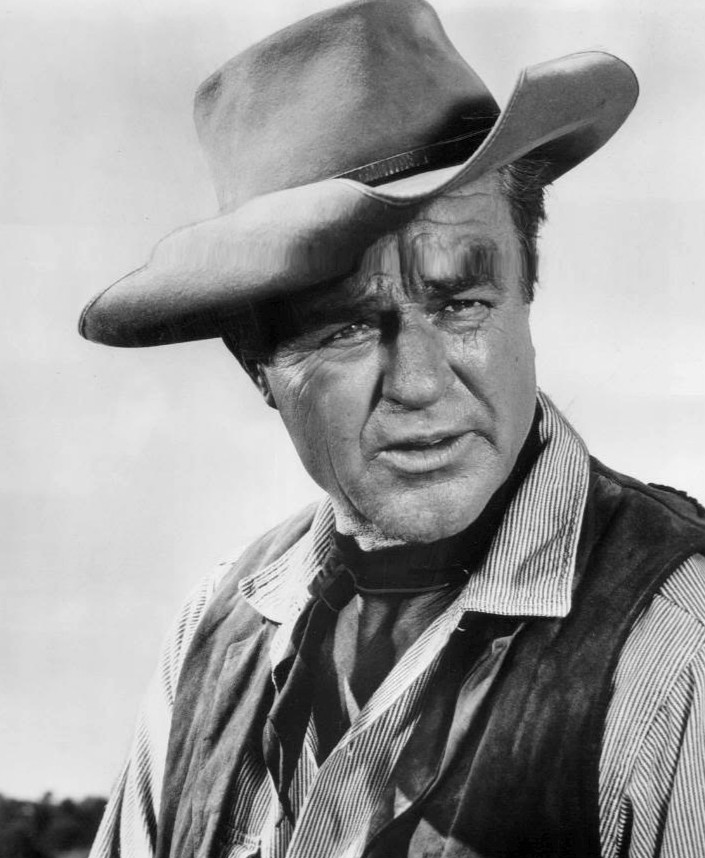 Photo of actor Jim Davis (later Jock Ewing on Dallas) from an episode of Death Valley Days.